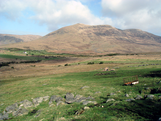 Mourne countryside at Slievenagore The lower slopes of Slievenagore. The view is towards Slieve Muck in the distance.